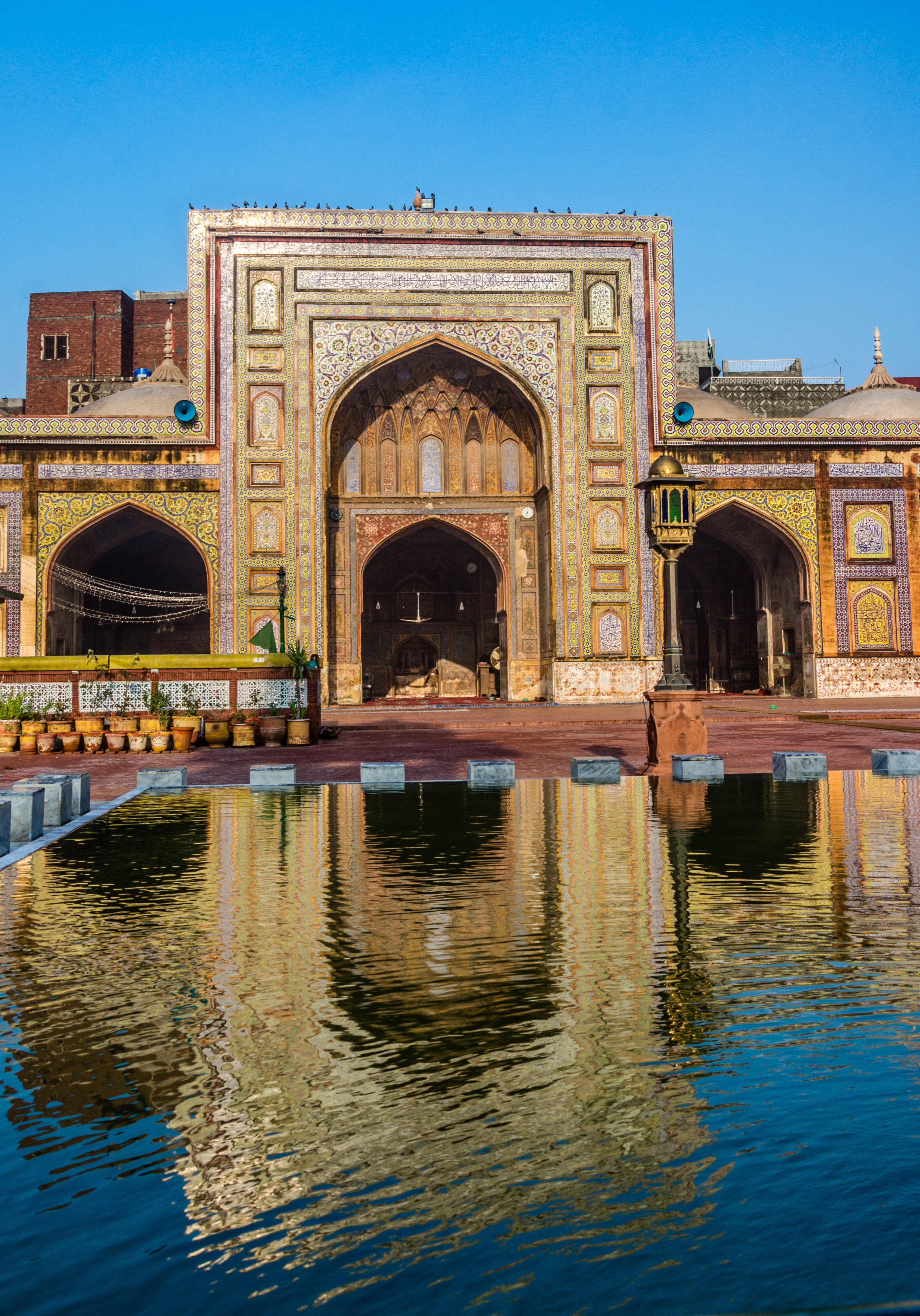 Wazir Khan Mosque This is a photo of a monument in Pakistan identified as the PB-100